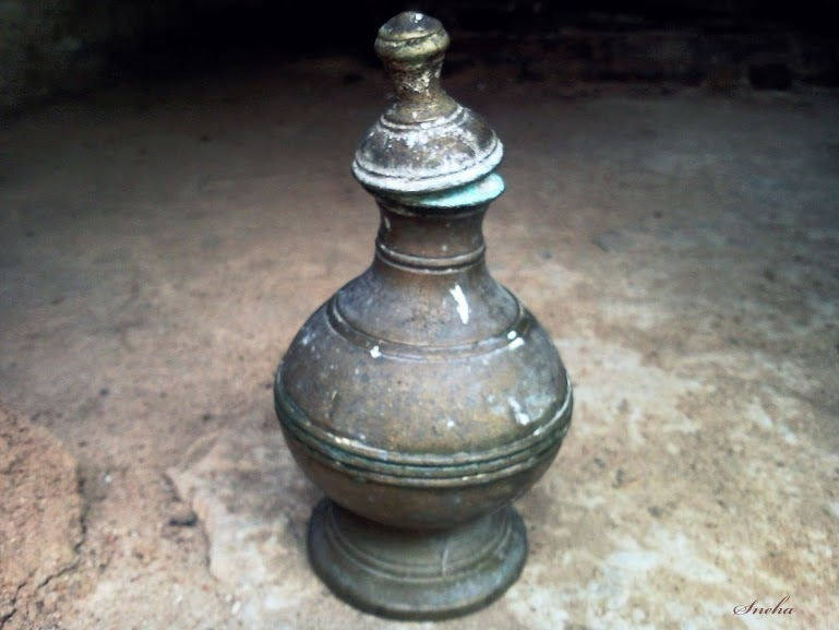 A vessel used to store calcium